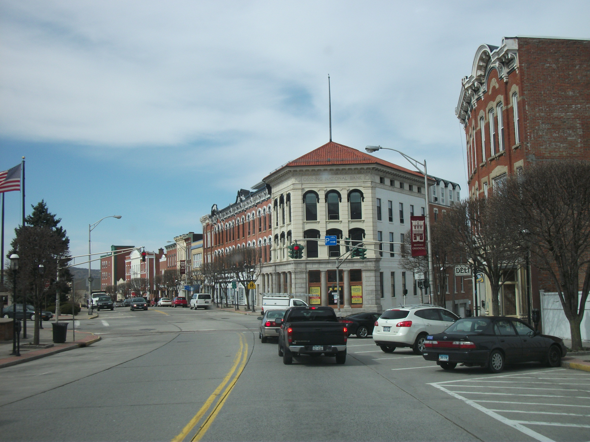 Downtown Ossining, New York; taken in 2010.